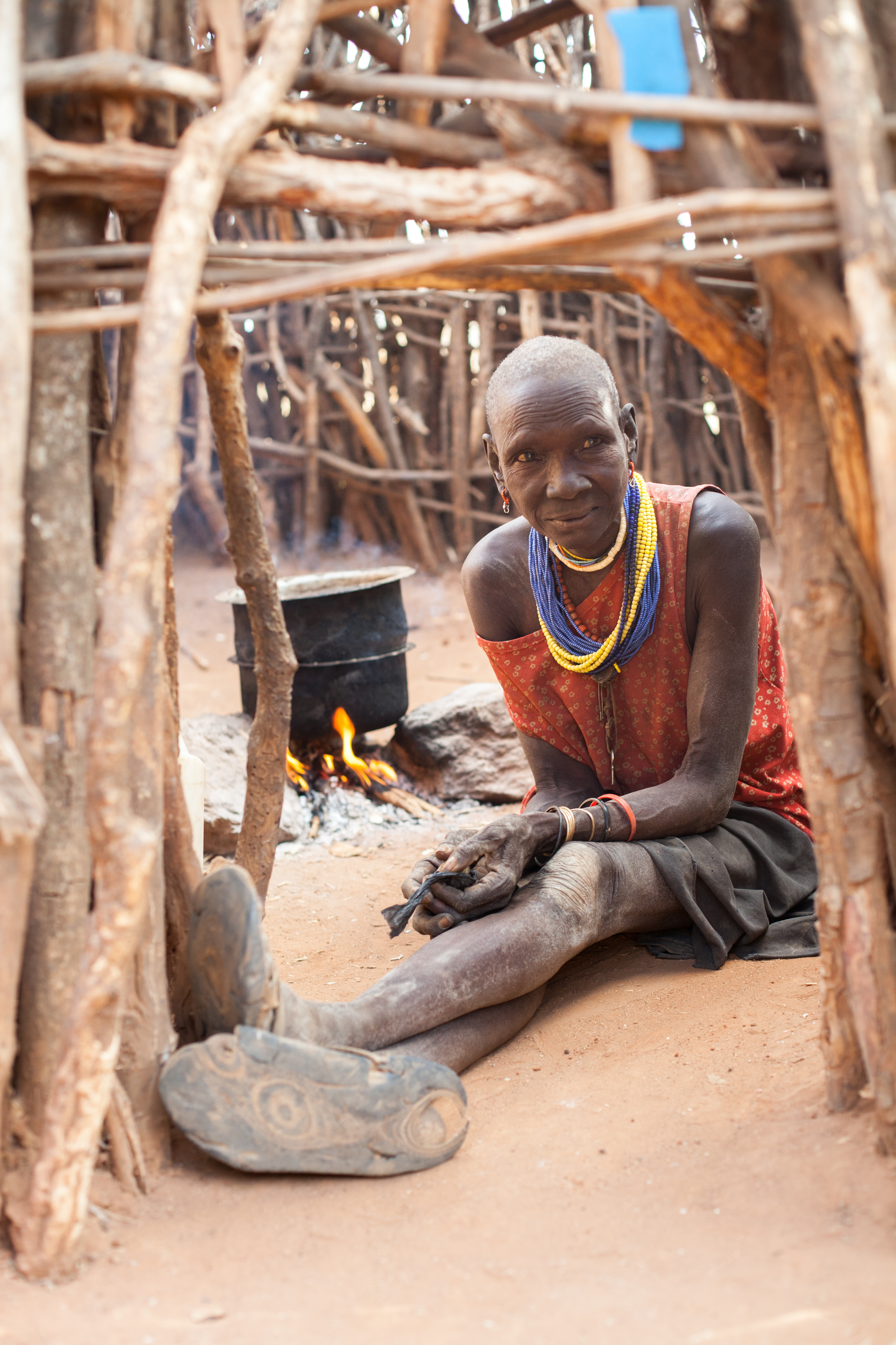 This is an image of "African people at work" from Uganda